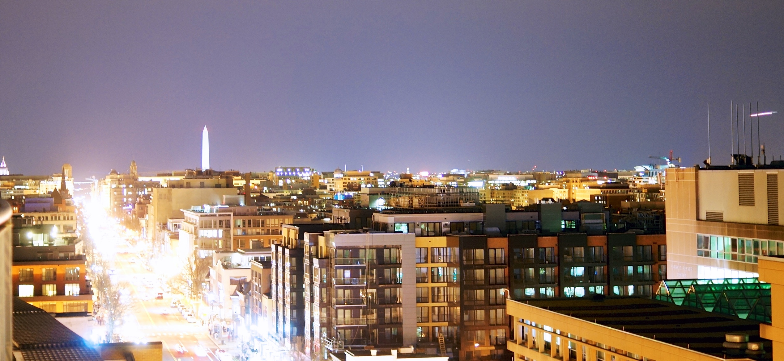 Looking south down 14th St. in Washington, DC from U Street NW at night.